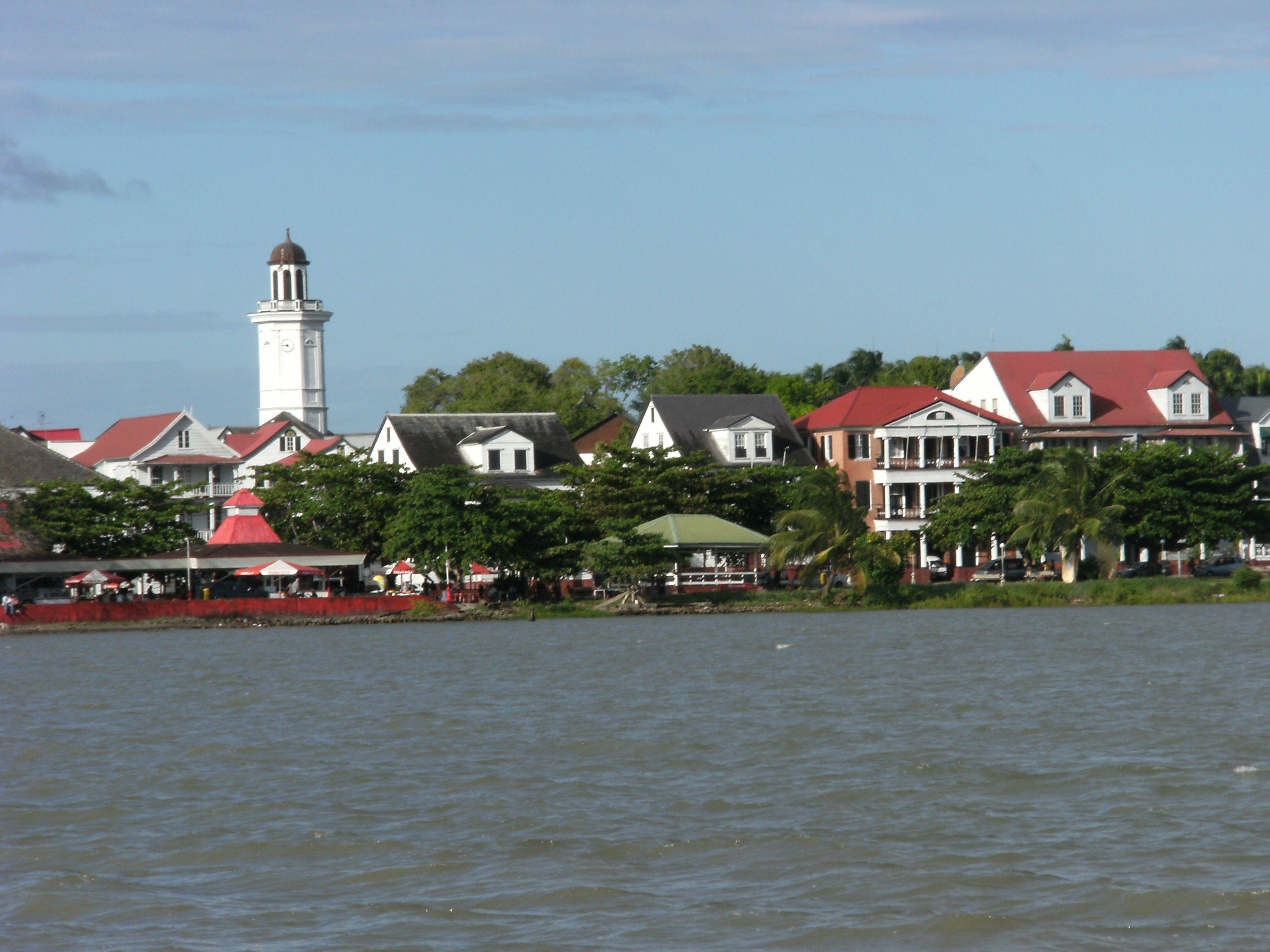 Waterkant as seen from Suriname river.